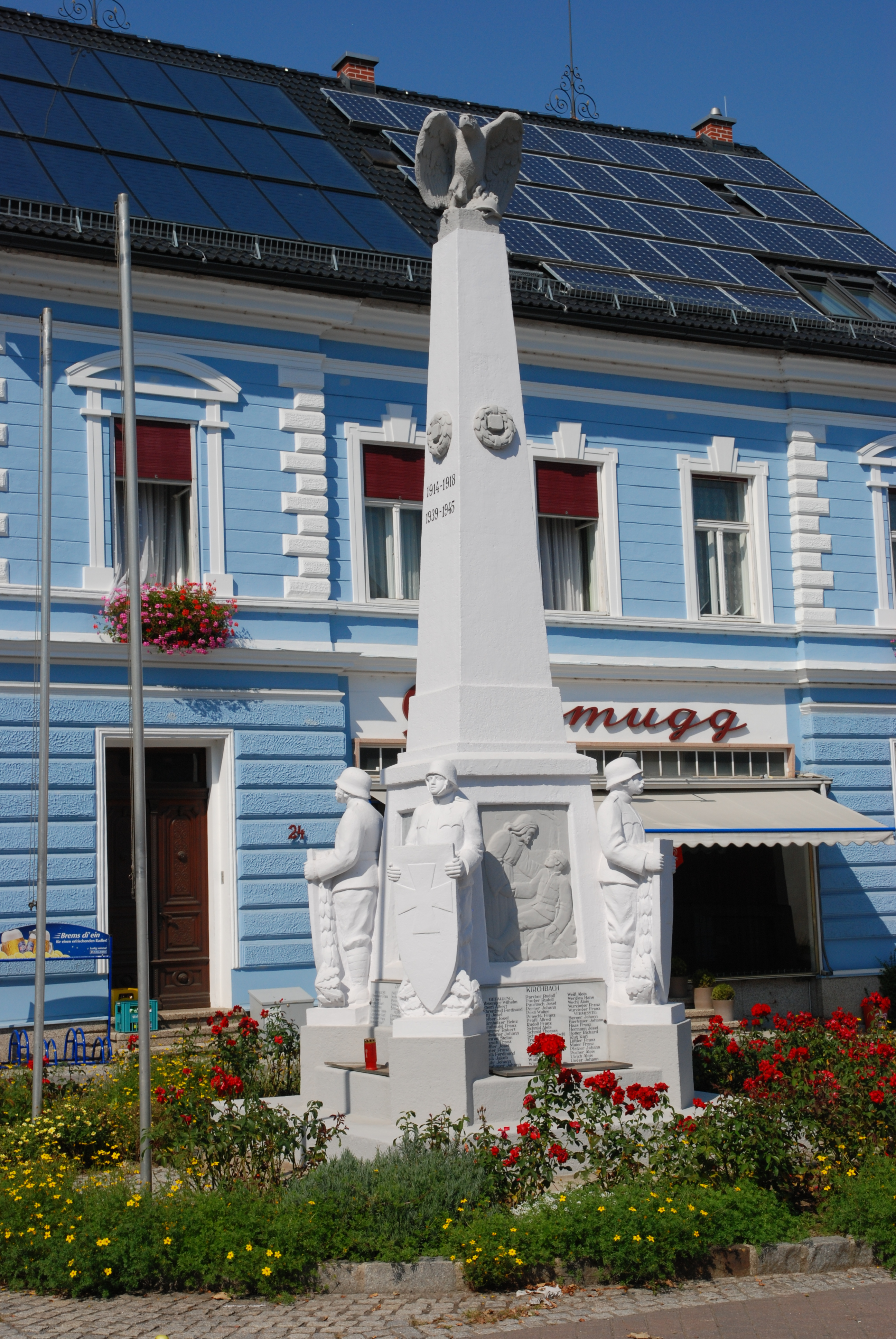 Kriegerdenkmal Kirchbach